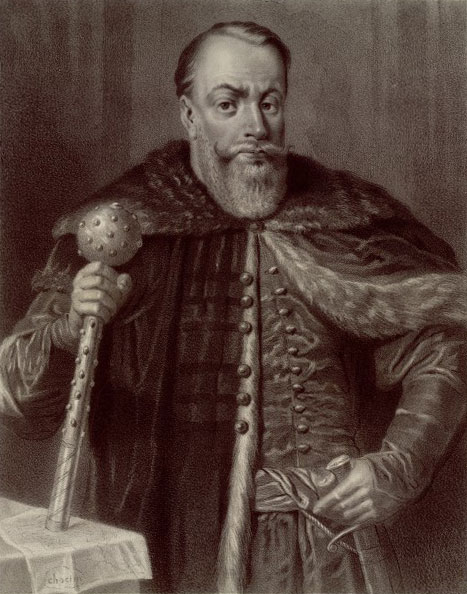 Jan Karol Chodkiewicz, polish hetman /count/